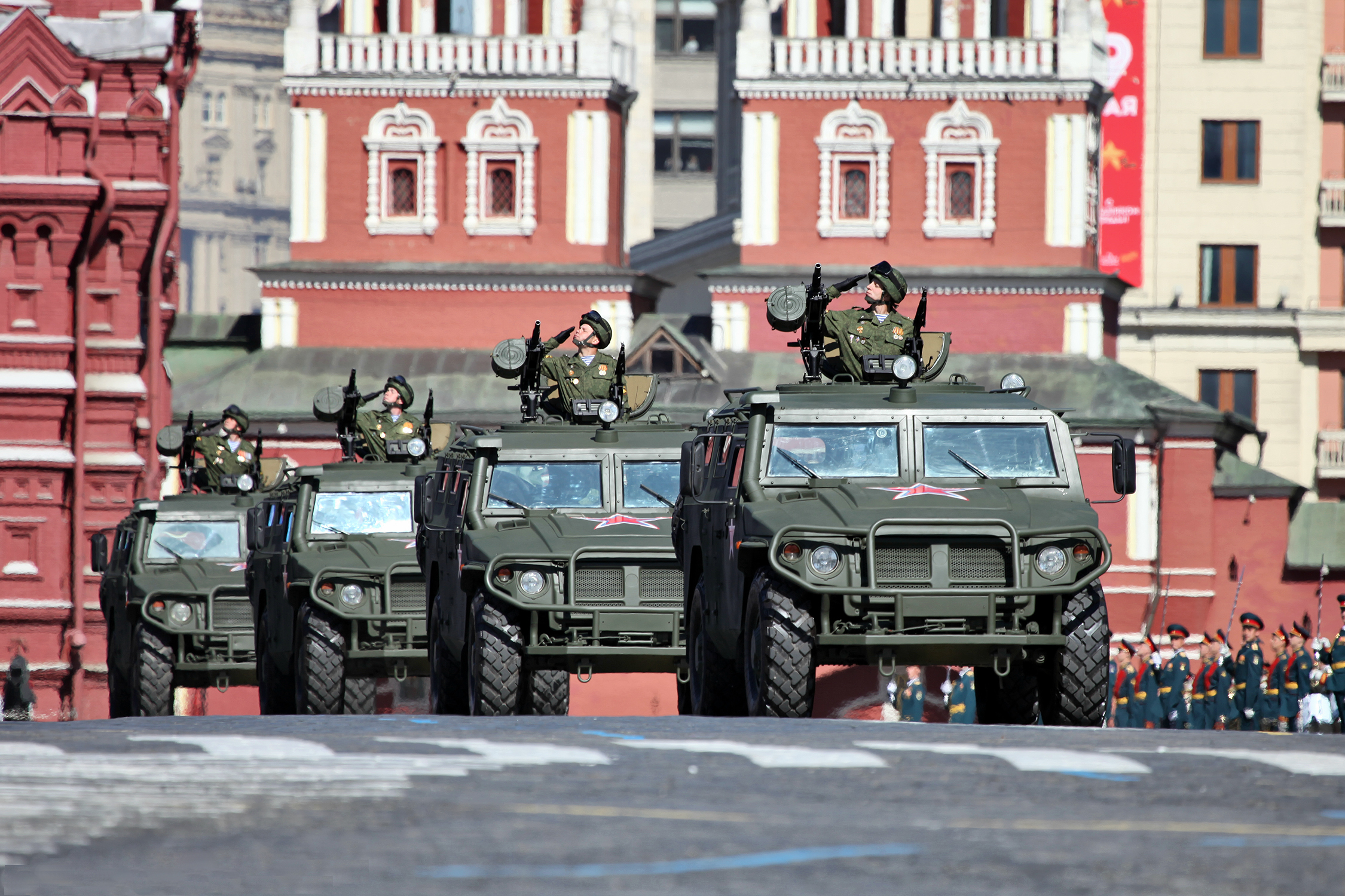 GAZ-233014 Tigr